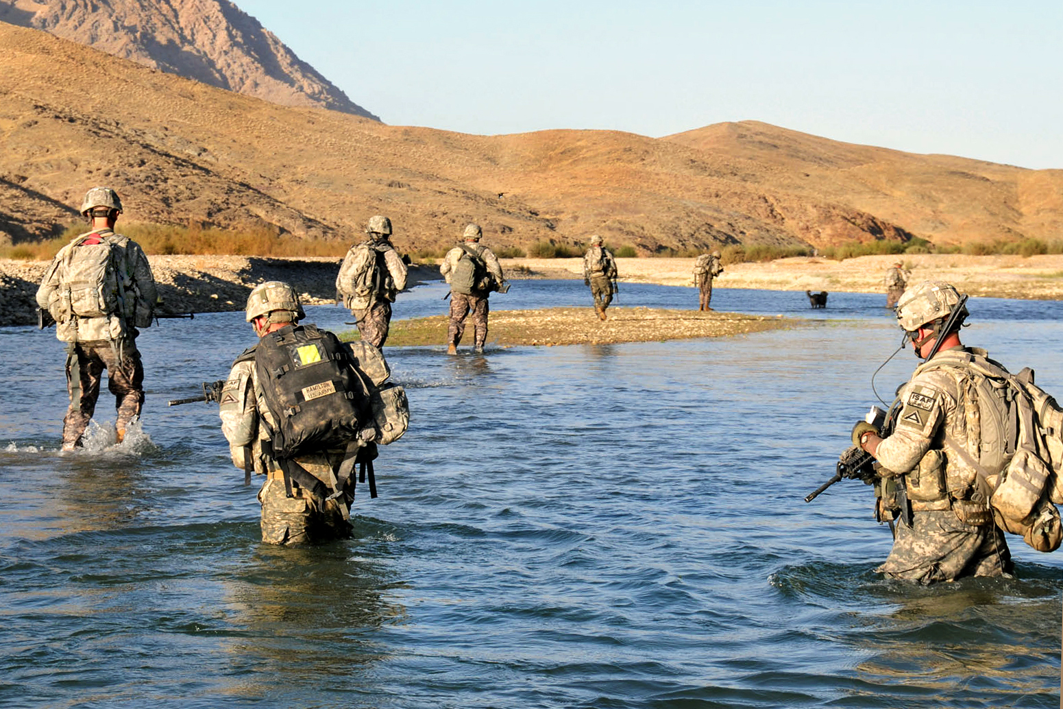 U.S Army Soldiers cross the Arghandab River to assist Afghanistan police on a humanitarian mission in Kashani village in Zabul province, Afghanistan, Oct. 9, 2009. The Soldiers are assigned to Company A, 1st Battalion, 4th Infantry Regiment. U.S. Army photo by Specialist Tia P. Sokimson